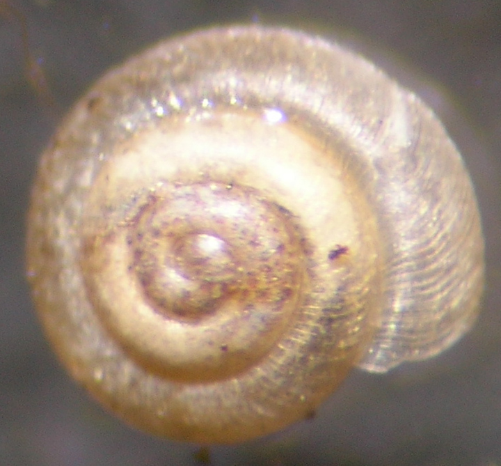 Top view of Punctum minutissimum shell